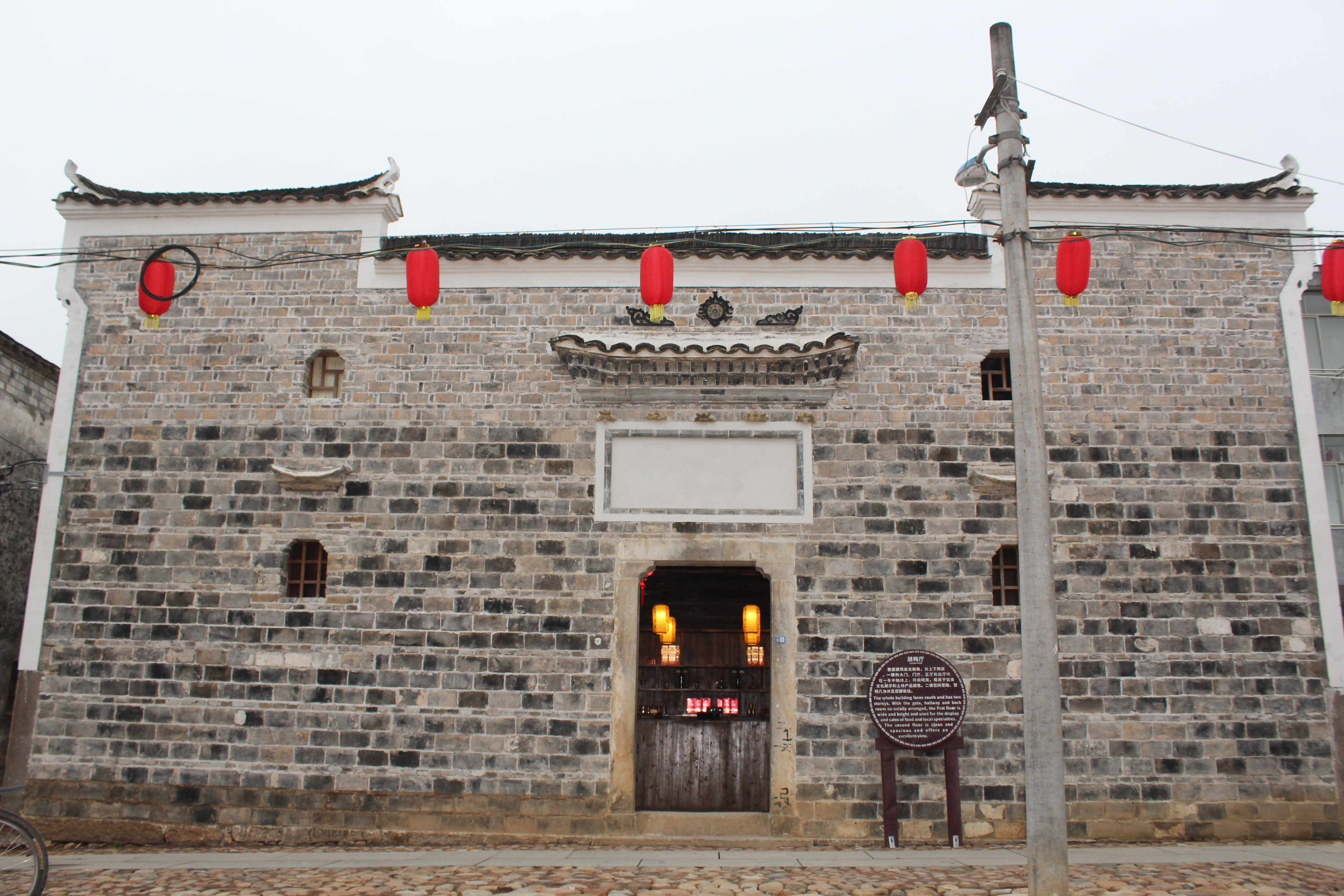 Photo of a historical building in Shangjing